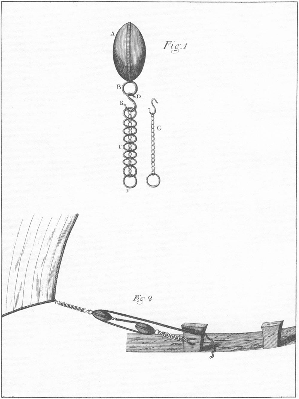 drawing of Spring-Block by Francis Hopkinson, awarded with the Magellanic Premium in 1790